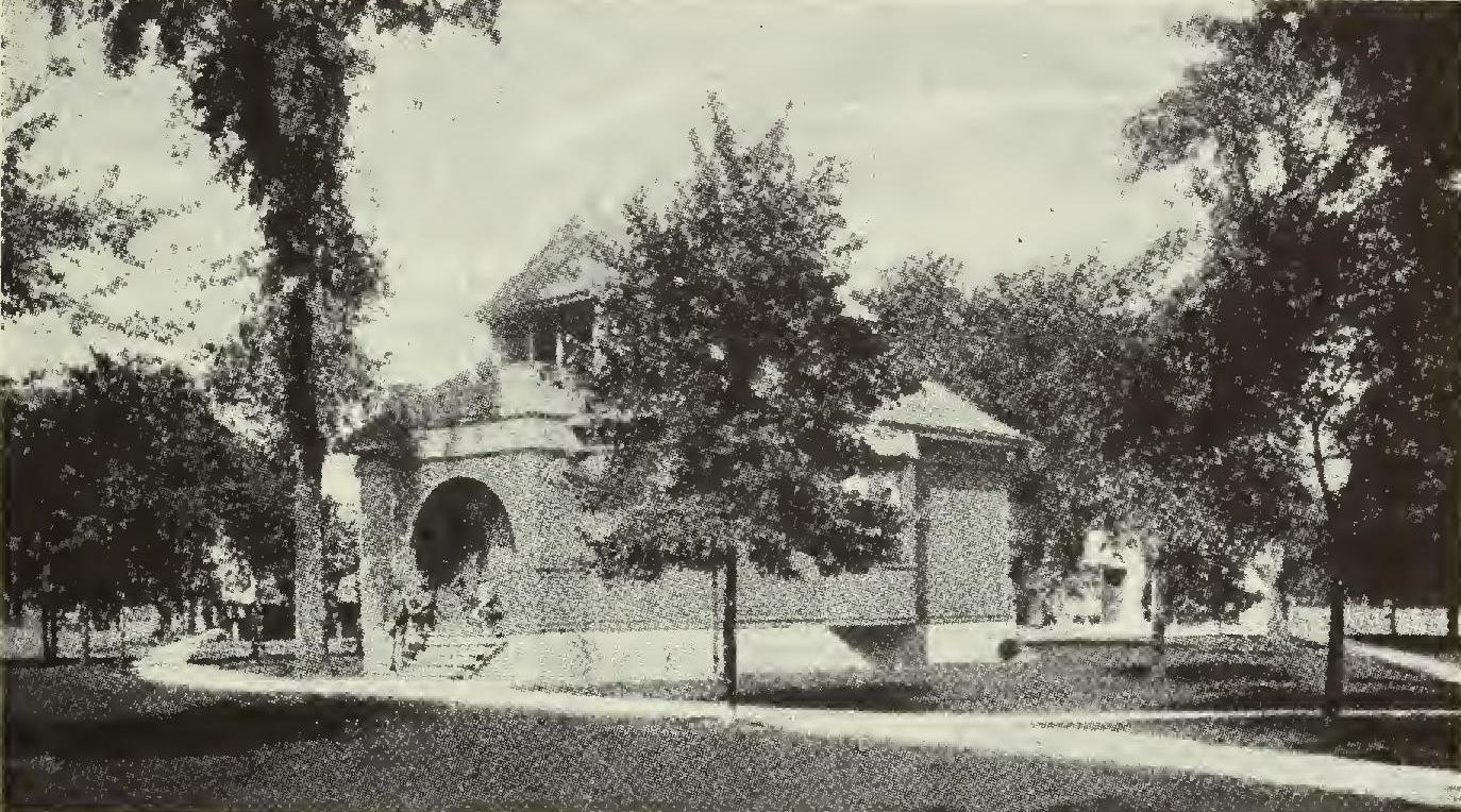 Wilmette and the suburban whirl : a series of historical sketches of life in the suburb from the turn of the century by Mulford, Herbert B Publication date 1956 Publisher Wilmette, Ill. : Wilmette Public Library Collection university_of_illinois_urbana-champaign; americana Digitizing sponsor University of Illinois Urbana-Champaign Contributor University of Illinois Urbana-Champaign Language English Bookplateleaf 0004 Call number 1151568 Camera Canon EOS 5D Mark II Identifier wilmettesuburban00mulf Identifier-ark ark:/13960/t71v6mz0x Ocr ABBYY FineReader 8.0 Openlibrary_edition OL25293649M Openlibrary_work OL16610530W Page-progression lr Pages 150 Possible copyright status Public domain. Published 1923-1963 with notice but no evidence of copyright renewal found in Stanford Copyright Renewal Database. for information. Ppi 500 Scandate 20120501162229 Scanner Scanningcenter il